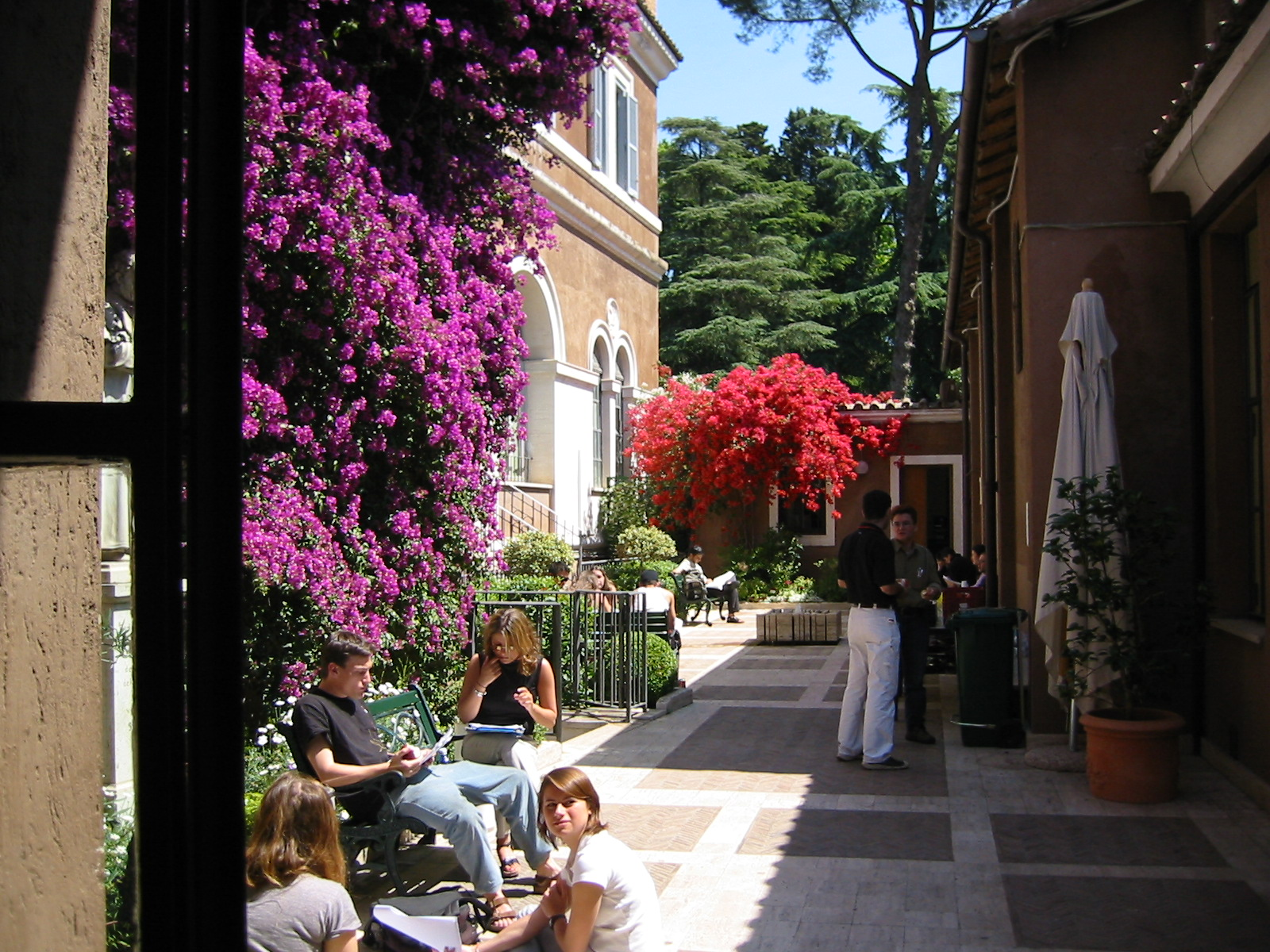 This is a photo of one of the courtyards in John Cabot University's Guarini Campus.